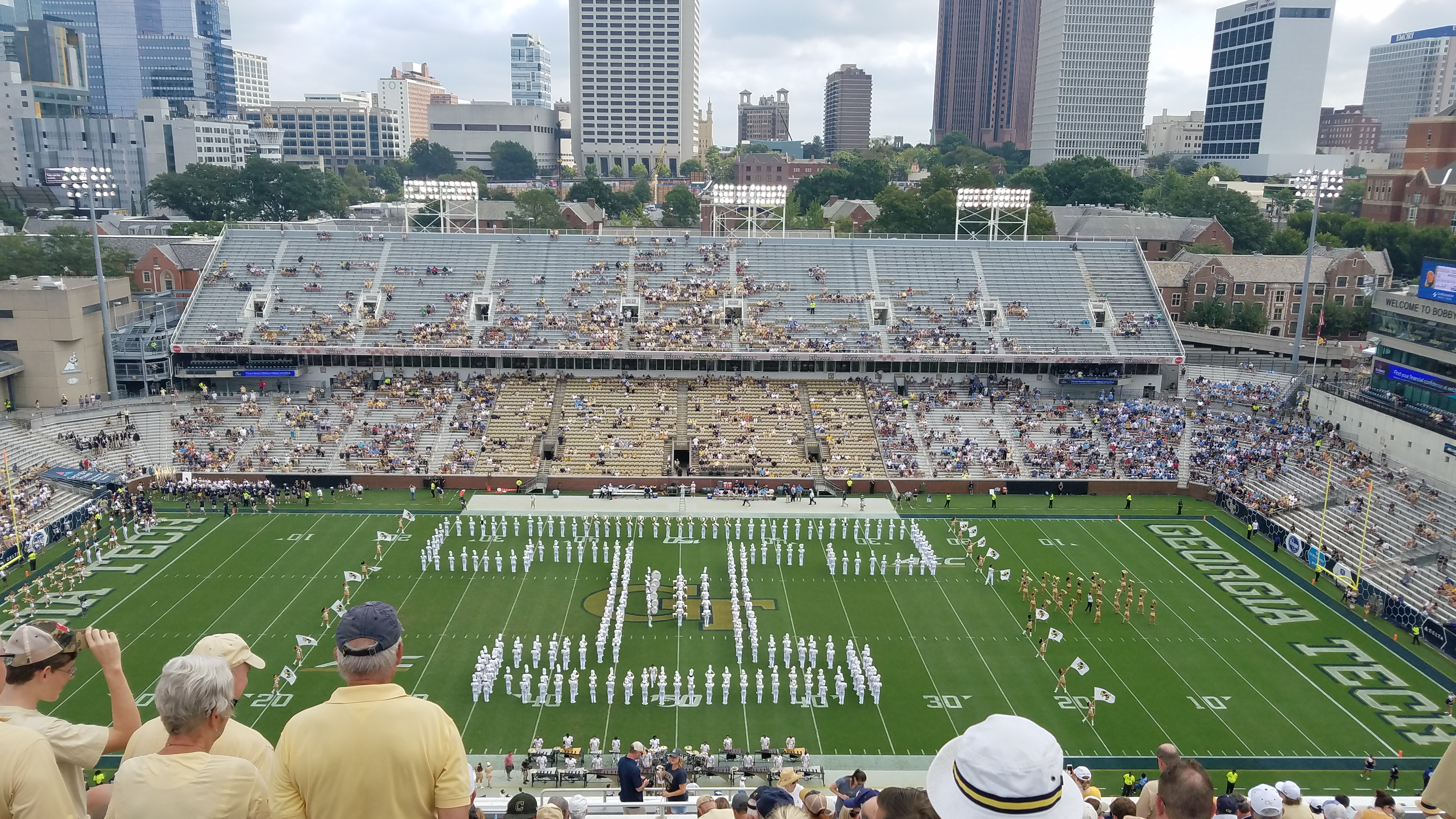 The Georgia Tech Yellow Jacket Marching Band performing a pregame routine at Bobby Dodd Stadium on the main campus of the Georgia Institute of Technology. The routine occurred prior to the Yellow Jackets' 2019 game against The Citadel. Picture taken from the upper west stands facing east.